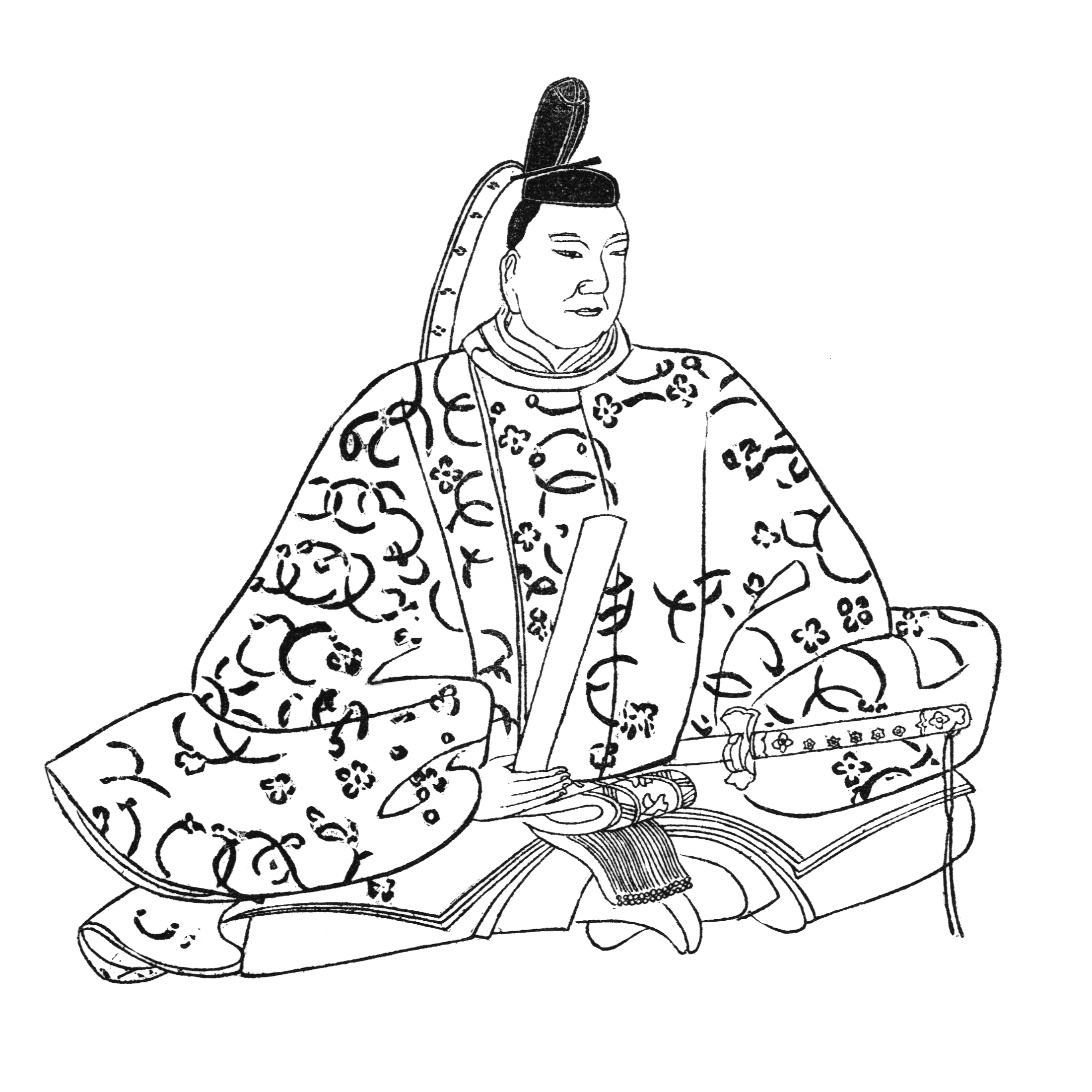 Portrait of Minamoto no Yoshimitsu